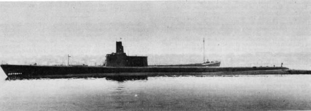 Albacore (SS-218) in Measure 9 camouflage (dull black) off Groton, 9 May 1942. Note the large conning tower and periscope sheers. taken from